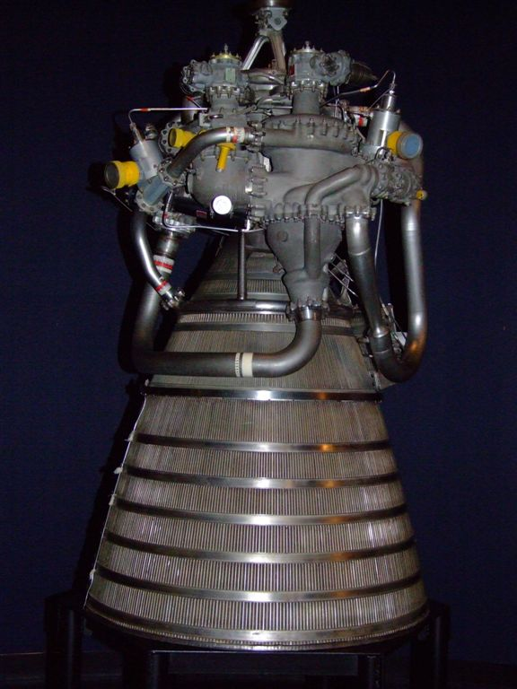 An RL10-A4 engine, manufactured by Pratt & Whitney and used on the Centaur second stage of the Atlas-Centaur rocket. This particular example dates from 1962 and can be seen in the London Science Museum.